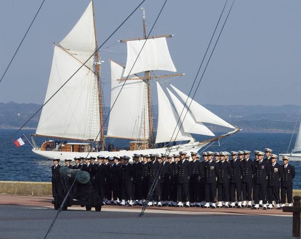 Étoile (or Belle Poule??) in the background...